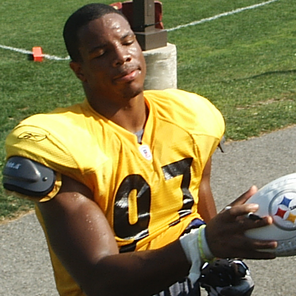 Arnold Harrison at training camp 2008